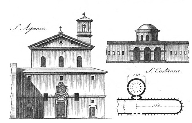 plan and elevation of S. Agnese fuori le mura (Rome)